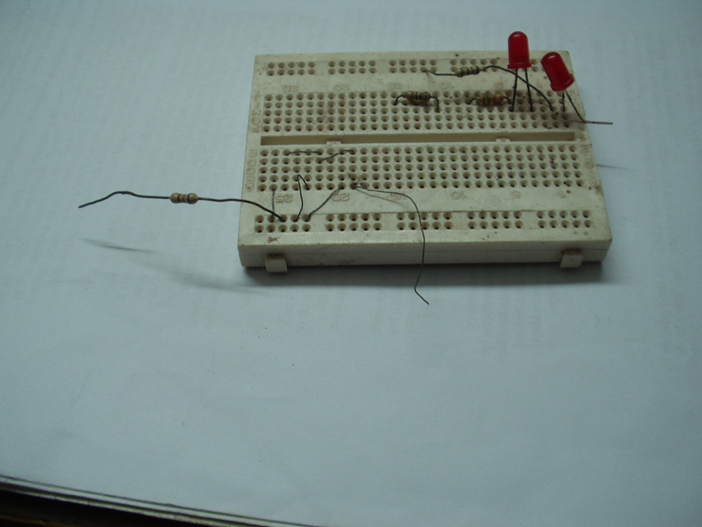 bred board.--Mamun2a 07:40, 1 October 2006 (UTC)